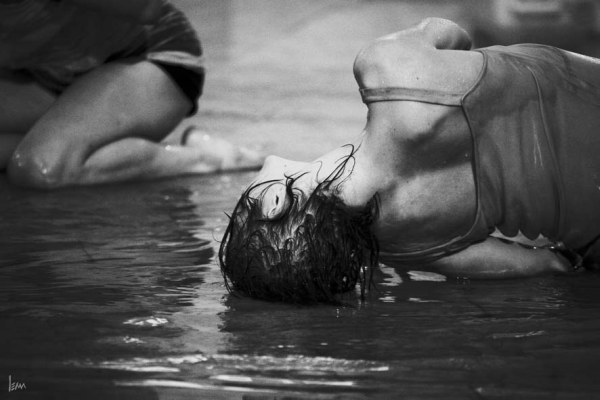 "Mislim reku / I think river"-performance, Novi Sad, 2008.